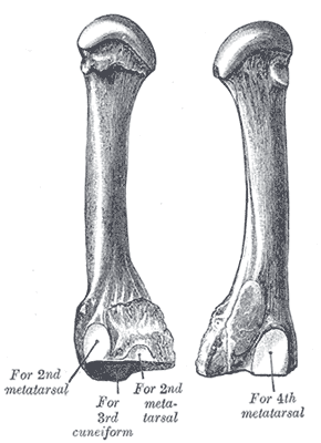 FIG. 286– The third metatarsal. (Left.)